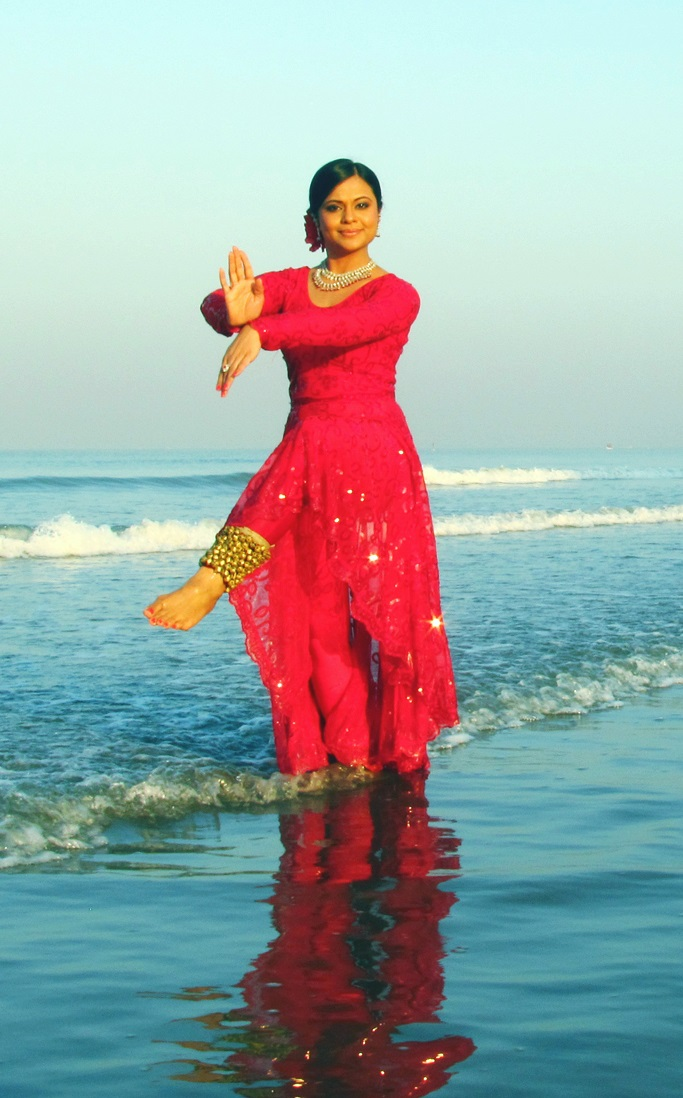 Photo of Aditi